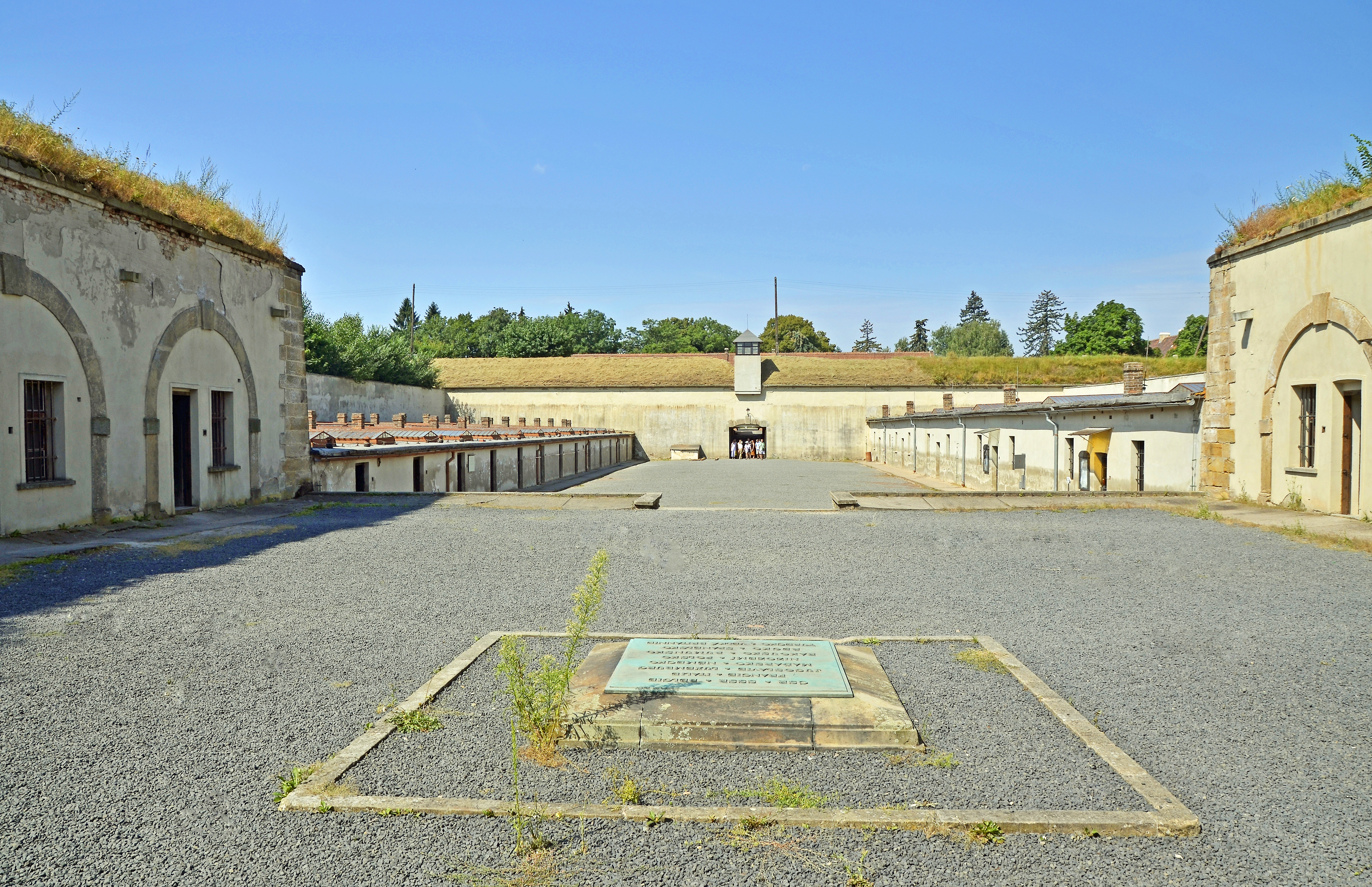 Terezin (Czech Republic)(Theresienstadt concentration camp)